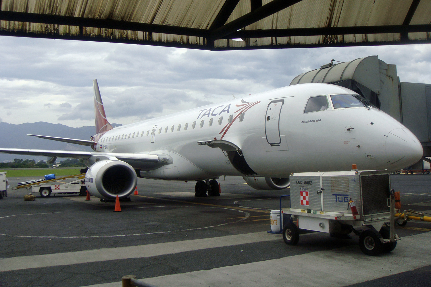 TACA's Embraer 190 (Costa Rican flag -LACSA-) at Juan Santamaria International Airport (SJO)